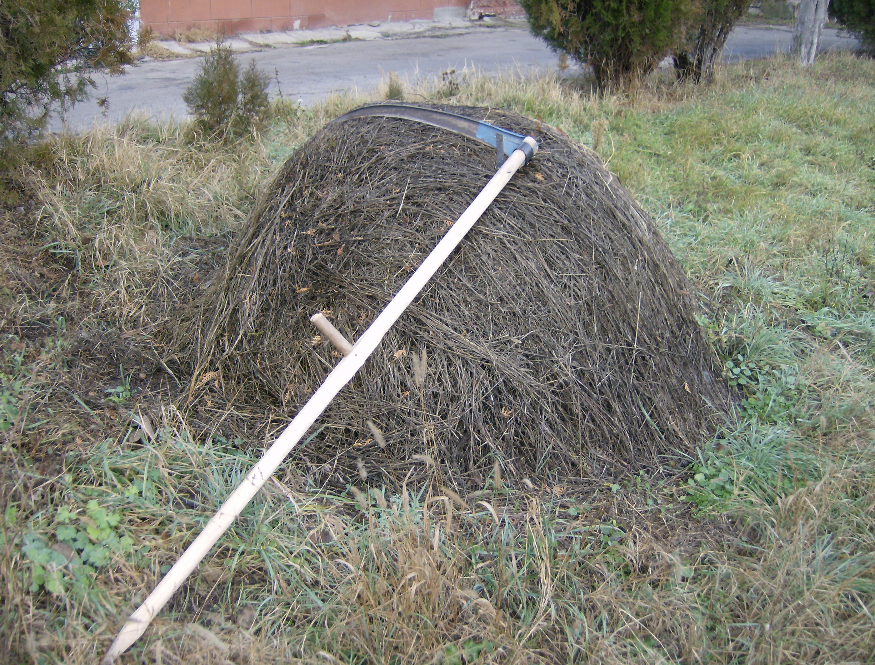 Scythes